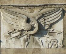 Old logo of Gdansk trams.